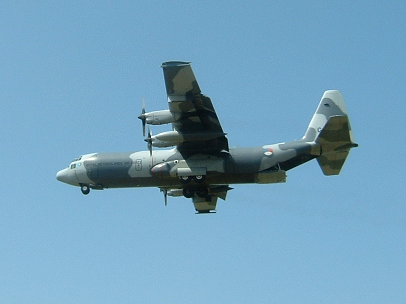 Lockheed C-130 Hercules, in use by the Dutch Air Force (Koninklijke Luchtmacht).